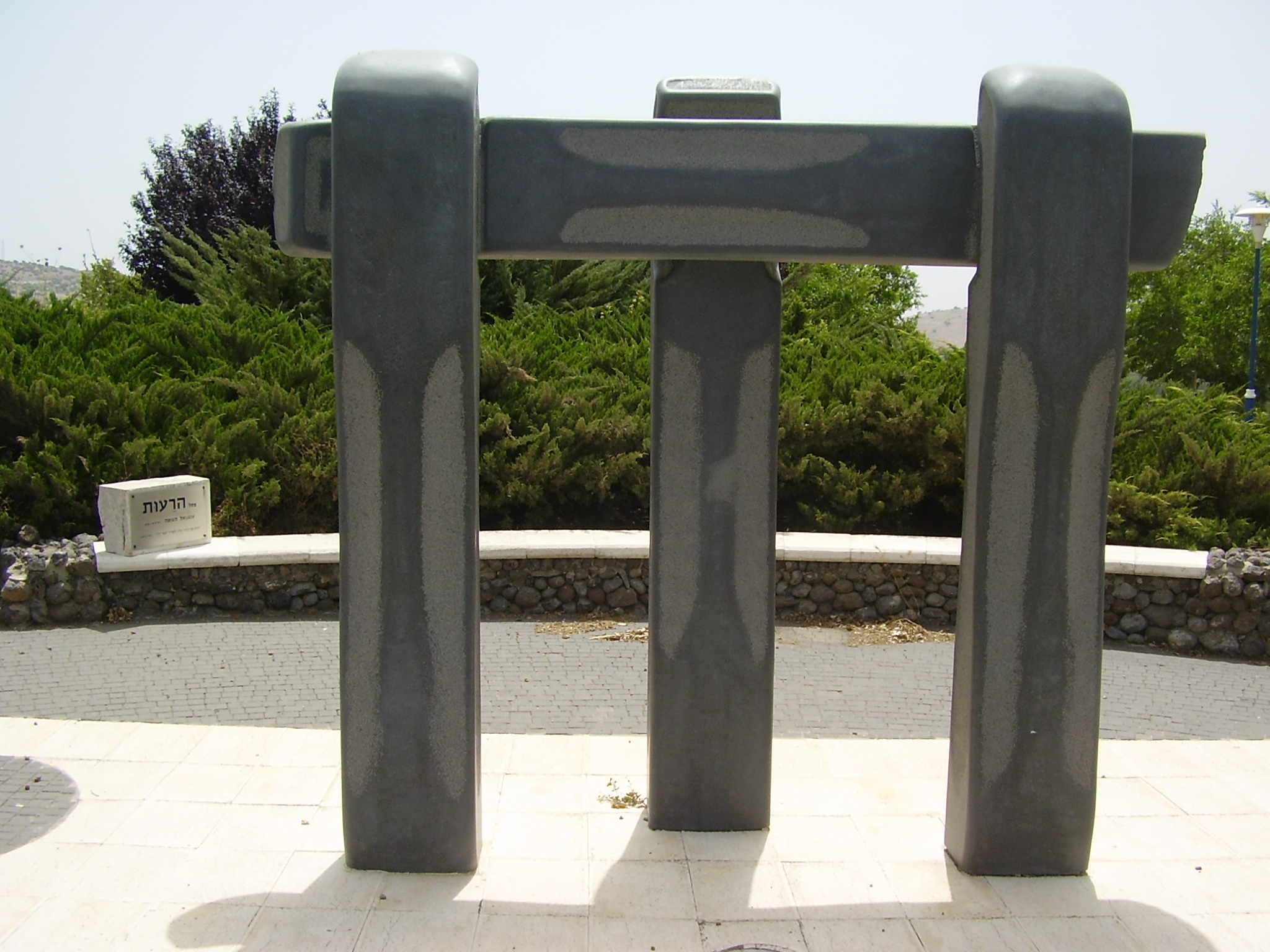 friendship monument in kibbutz yir\'on in upper galilee